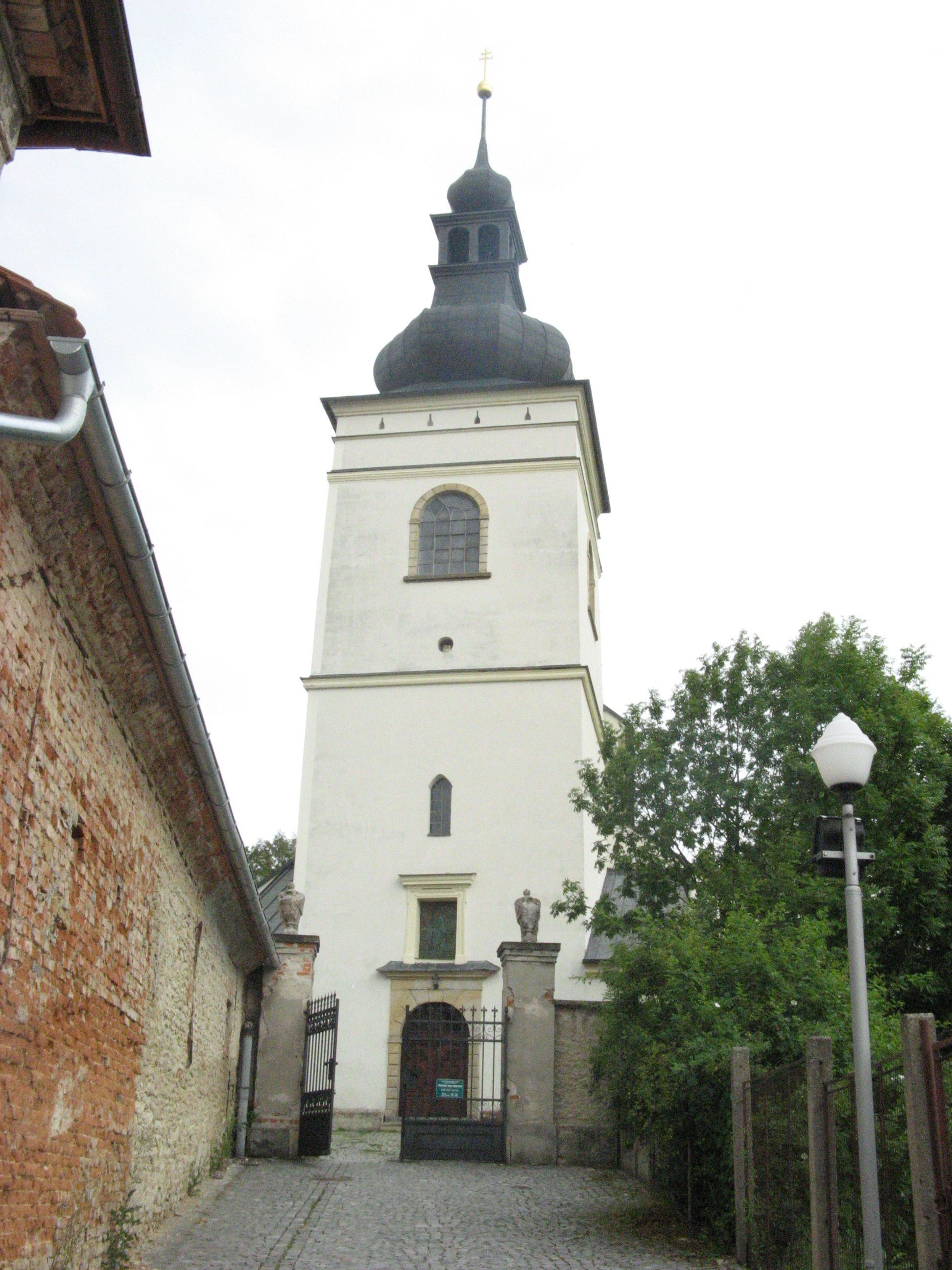 Church of St. Giles, Svitavy - Czech Republic